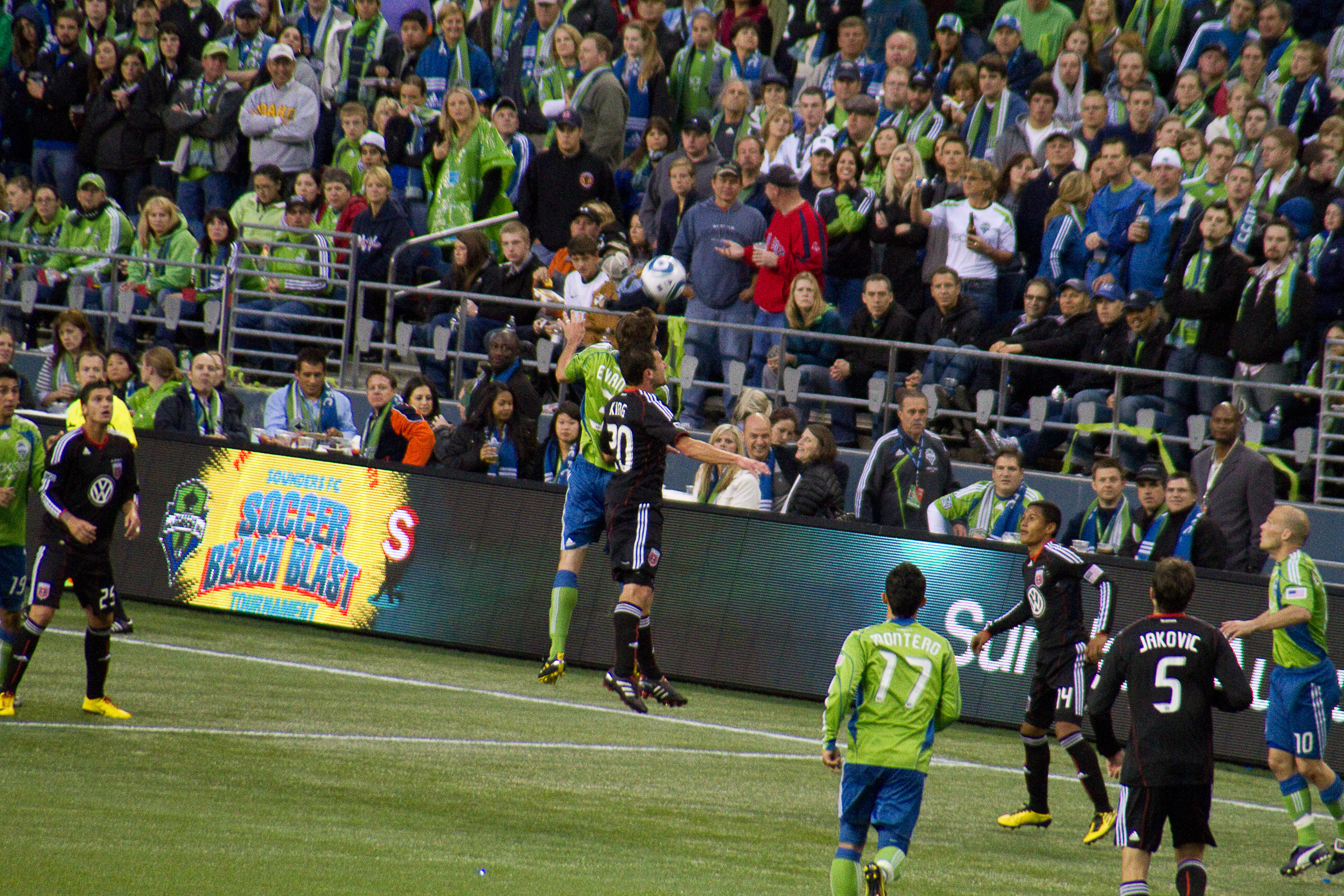 Seattle Sounders vs. D.C. United at Qwest Field in June 2010.